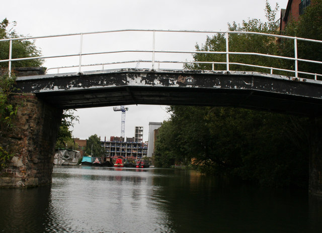 Regent's Canal: Kingsland Basin